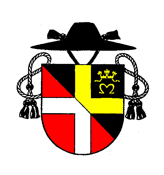 Coat of Arms of Deanery Zábřeh, Archdiocese Olomouc, Czech Republic